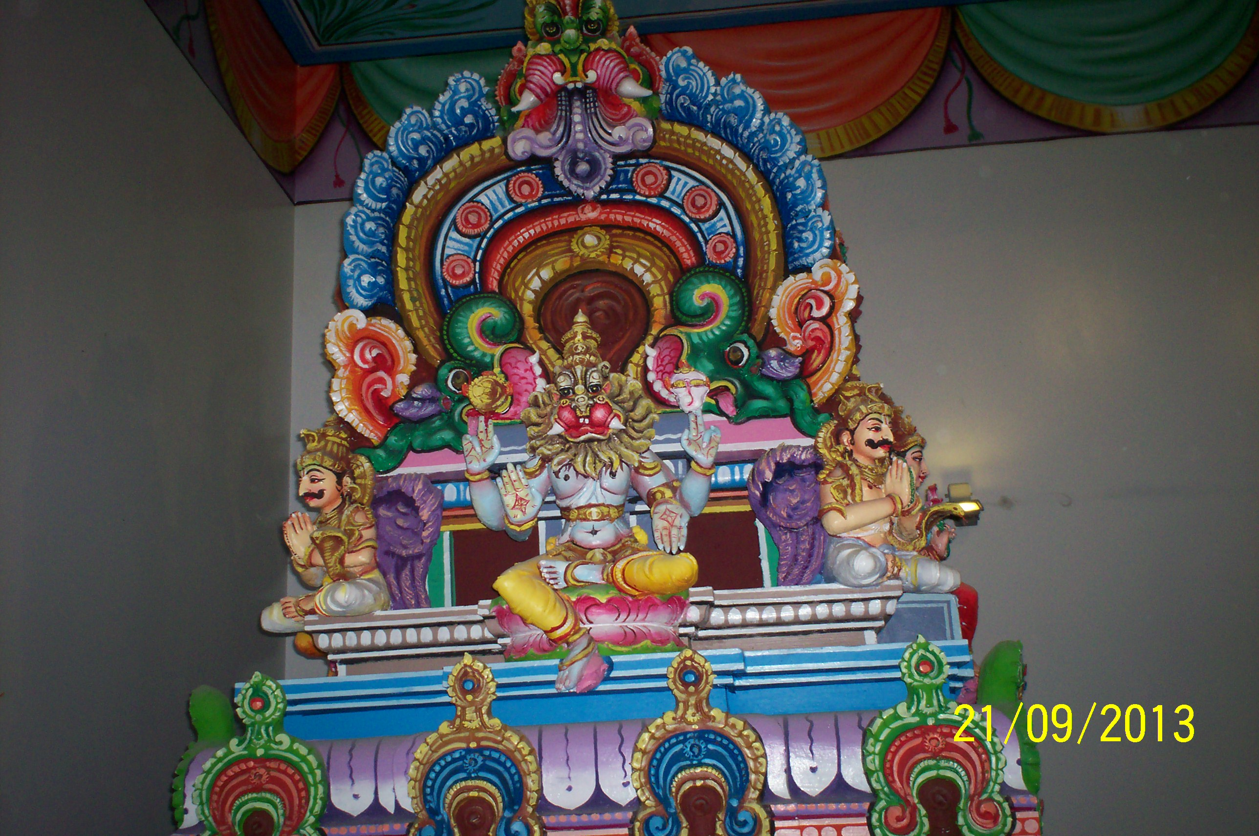 Top of the Krishna shrine in the Shree Mayoorapathy Murugan Temple in Britz, Berlin, Germany.